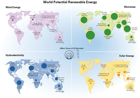 potencial of renewables